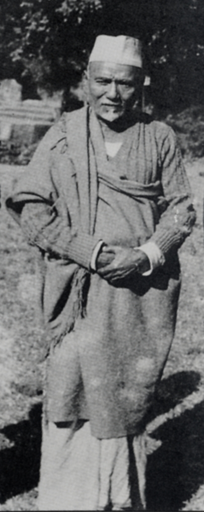 Allauddin Khan (Bangla: ওস্তাদ আলাউদ্দীন খান, also known as Baba Allauddin Khan) (1862 – 1972), was an Indian sarod player and multi-instrumentalist and one of the greatest music teachers of the 20th Century.